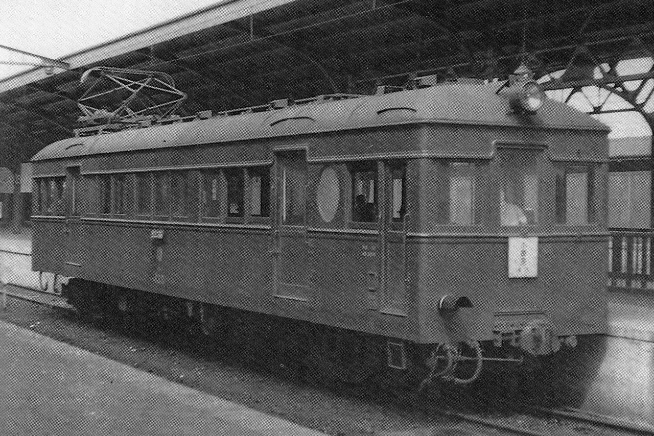 Odawara Express Railway No.132,EMU Type 131